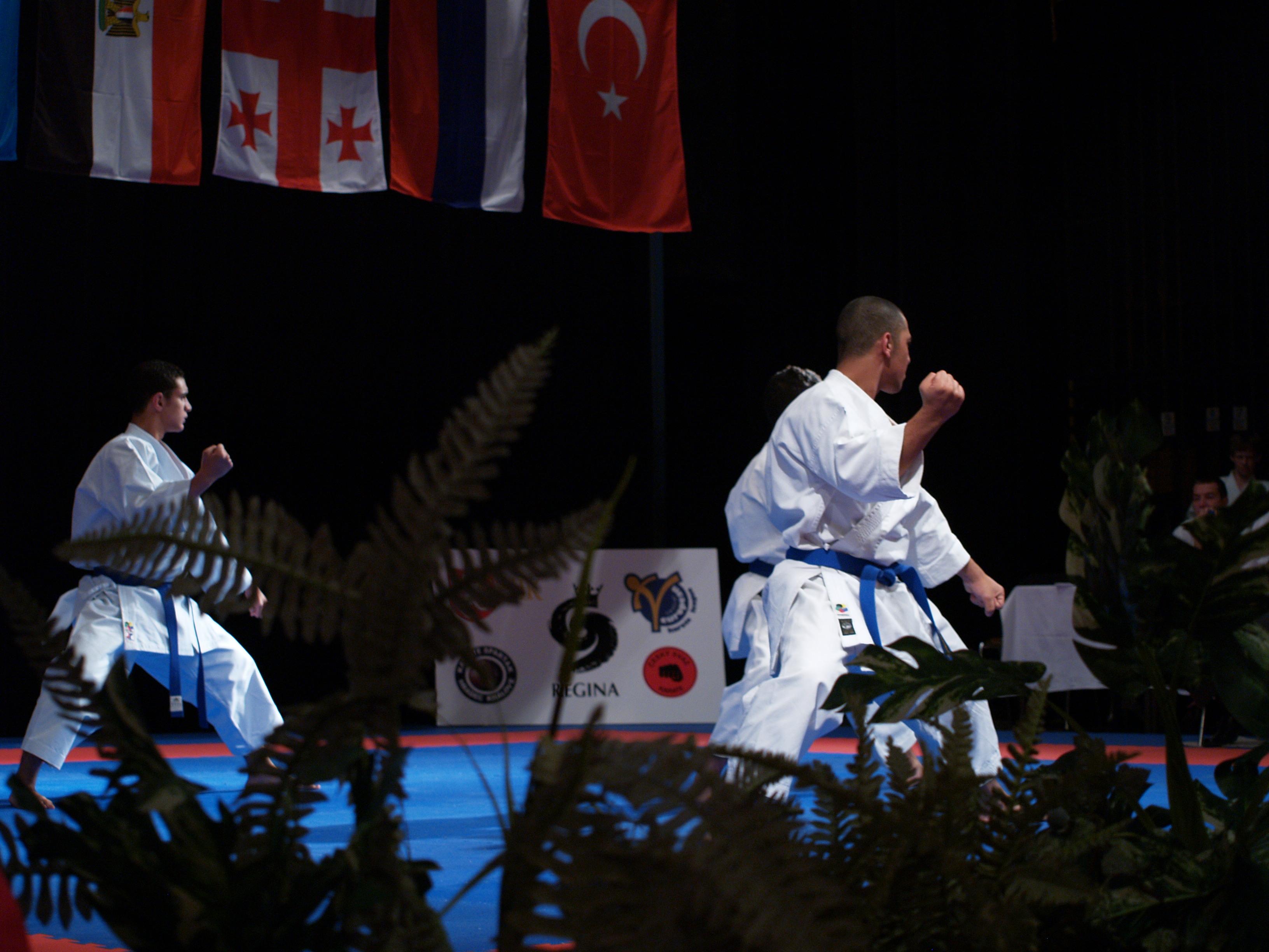 foto of Grand Prix Hradec Králové